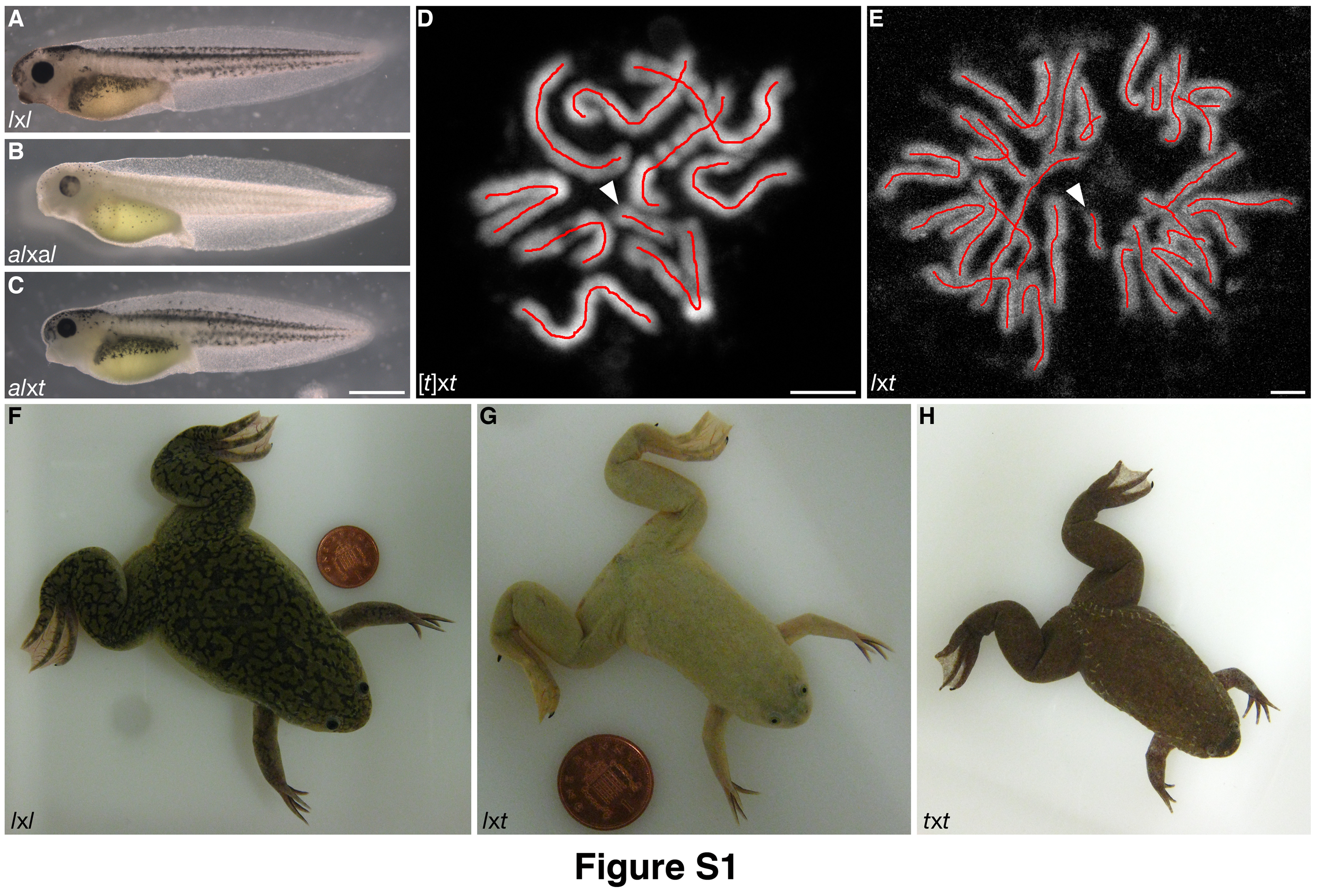 Characterization of the hybrids formed by the cross-fertilization of X. laevis eggs with X. tropicalis sperm. (A-C) lxt embryos are bona fide hybrids and synthesize proteins from the X. tropicalis genome. Stage 40 tadpoles of the following kinds are shown: (A) lxl, (B) albino (a) lxl (alxal) and (C) alxt. 22/22 stage 40 alxt tadpoles had a wild-type pigmentation pattern, indicating expression from the X. tropicalis albino gene. (D-E) Karyotype analysis revealed the expected chromosomal content in cells of lxt hybrids based on the respective haploid complement of each species (X. tropicalis: 10; X. laevis: 18). Hoechst-stained metaphase nuclei spreads from (D) [t]xt (10 chromosomes) and (E) lxt hybrid (28 chromosomes) stage 32 tadpoles are shown. Arrowheads point at the X. tropicalis marker chromosome 10 which is distinguishably smaller than all the other chromosomes present in each species. Individual chromosomes were manually highlighted in red. (F-H) lxt hybrids can metamorphose and develop into mature adults that have an intermediate phenotype relative to the two parental species. Adult (F) lxl, (G) lxt, and (H) txt males are shown. Scale bars in (A-C): 1 mm; (D-E): 2 mm. Diameter of the coin present in the background of (F-G): 2 cm; (G-H) are shown at the same magnification.